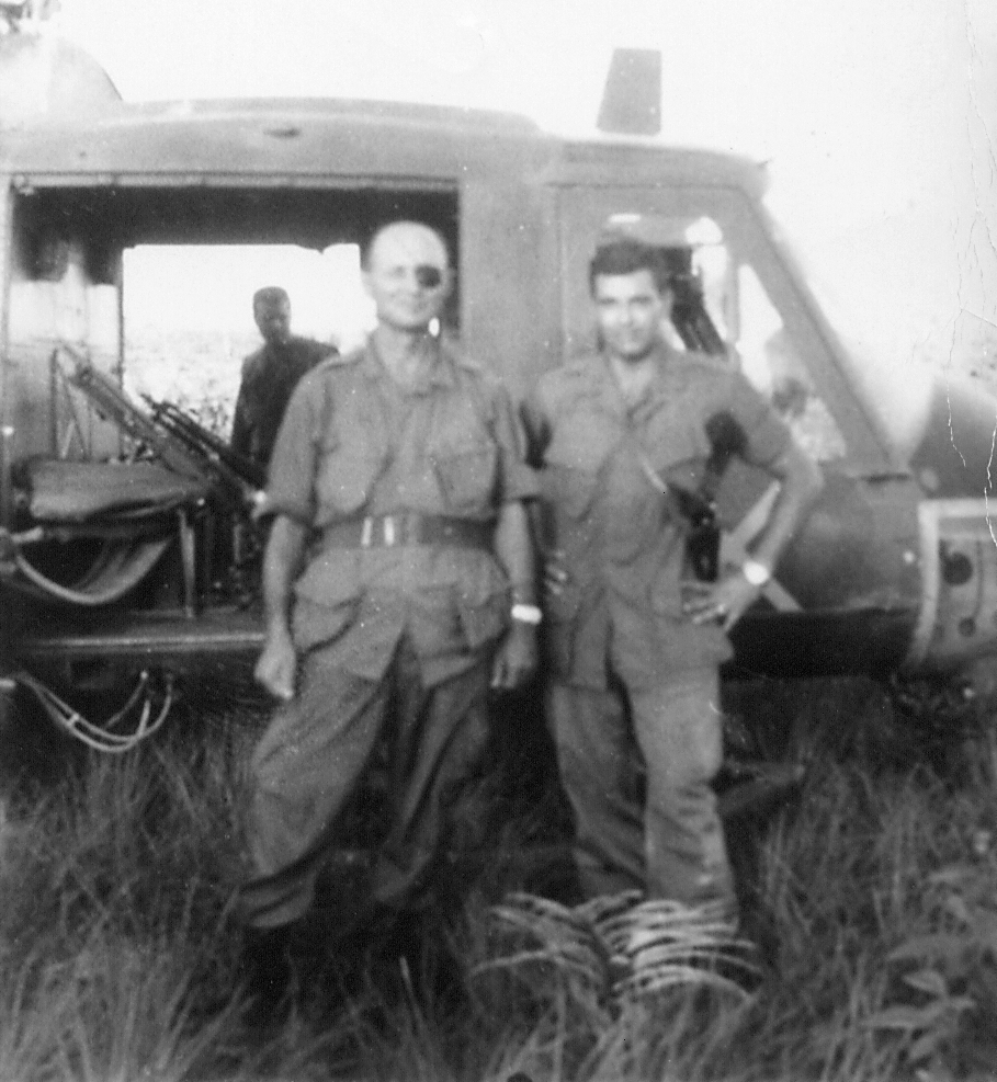 Moshe Dayan with Major J. Thomas Pearlman, Sr.